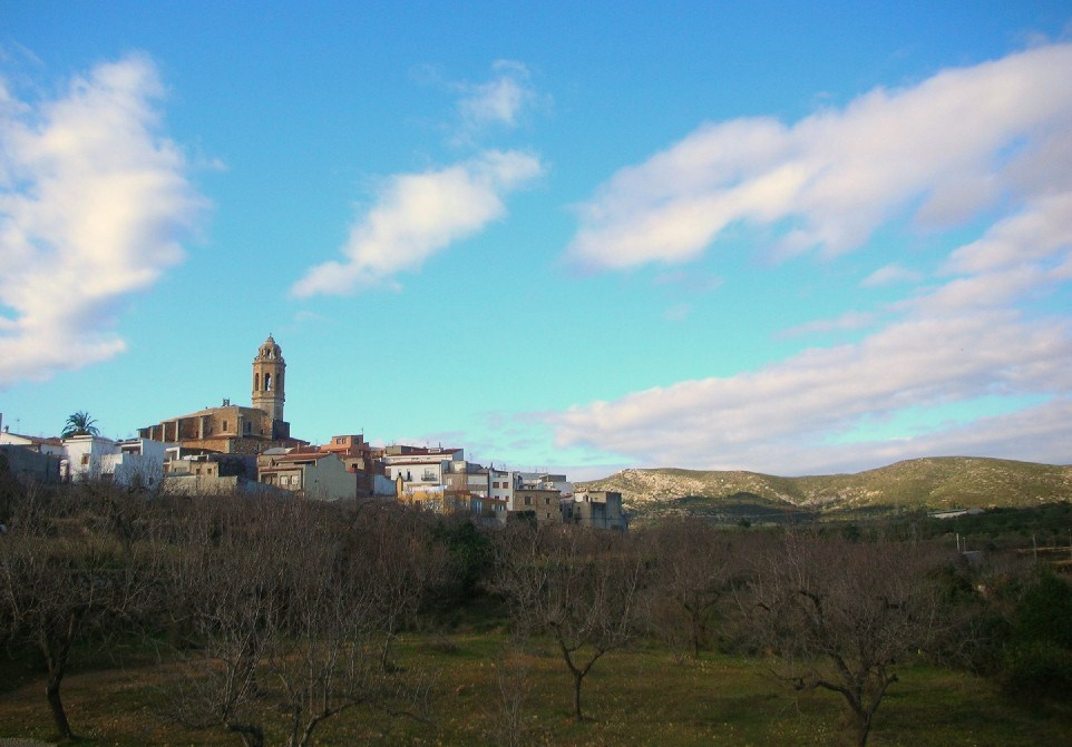 Traiguera village, Baix Maestrat